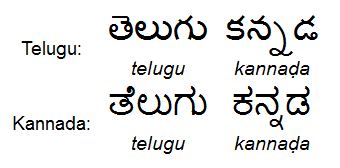 The words "Telugu" and "Kannada" in Telugu and Kannada scripts.